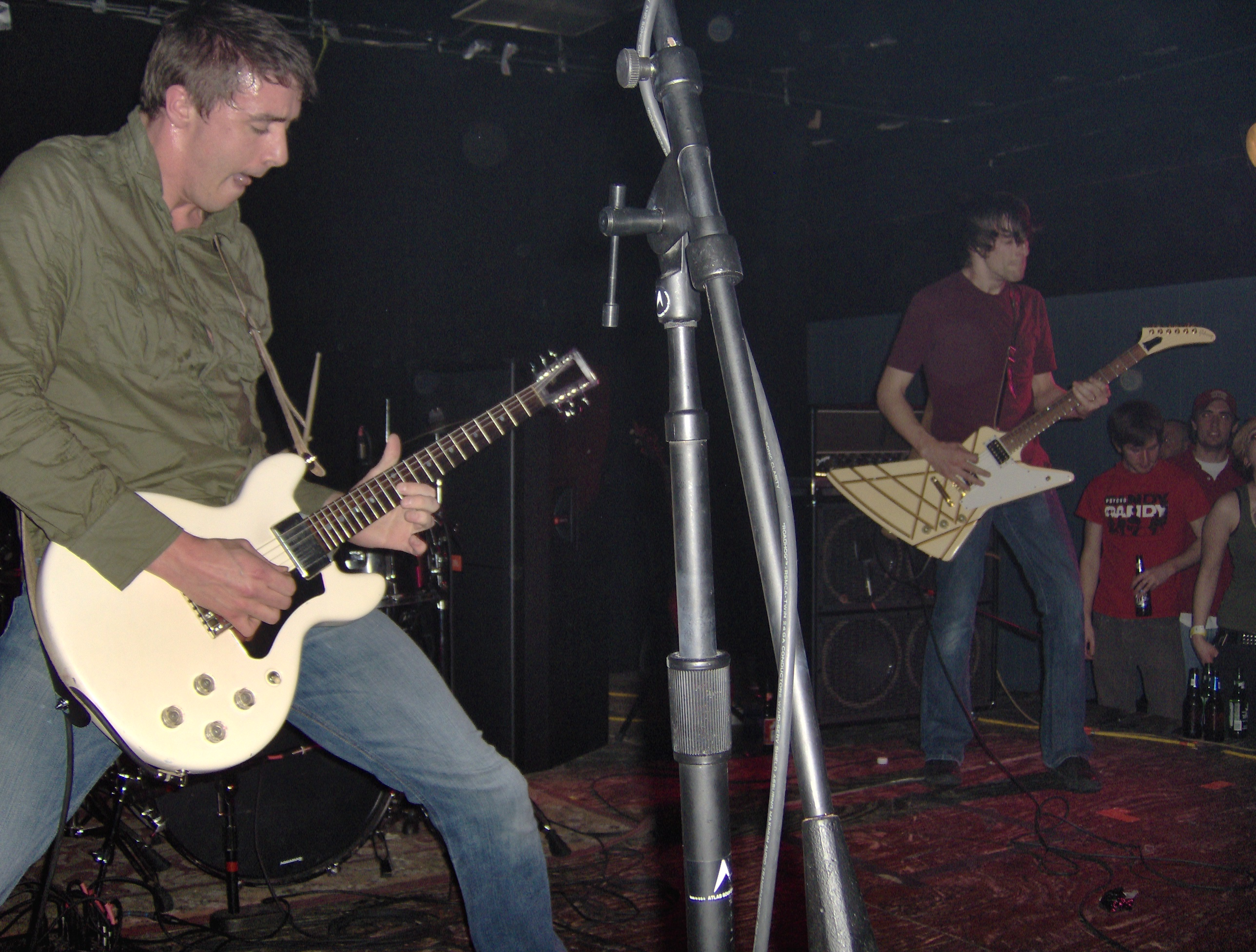 Steve Pedersen and Aaron Druery of Criteria performing at Omaha's Sokol Underground in 2006. Photo taken by Jonathan Flanagan.